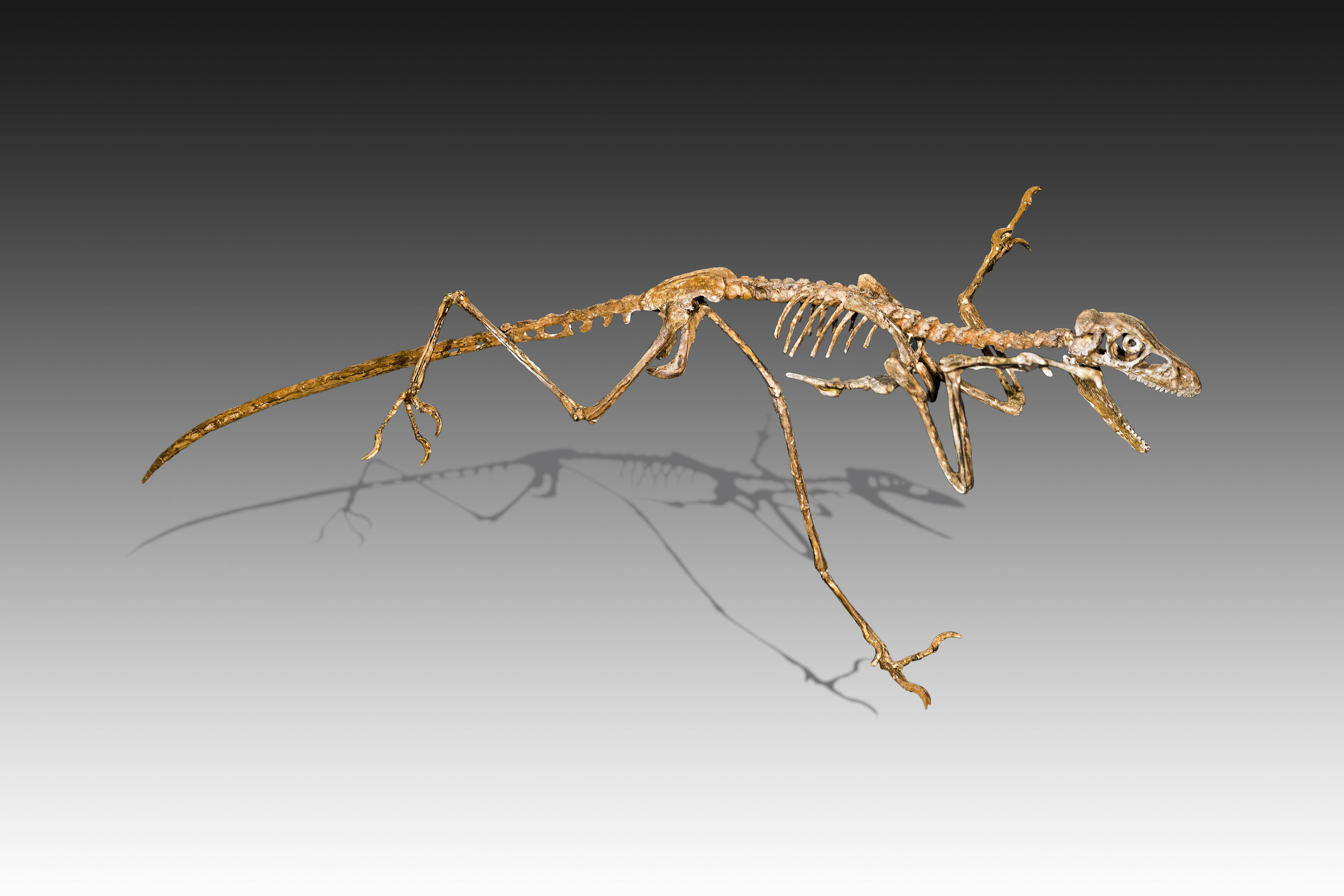 Cast of the squeleton of Microraptor. Warning: note that this cast shows a hand pronation impossible for this species. Stage: Aptian, 120 Ma Size: 60cm